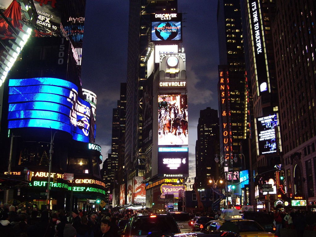 Times Square at night